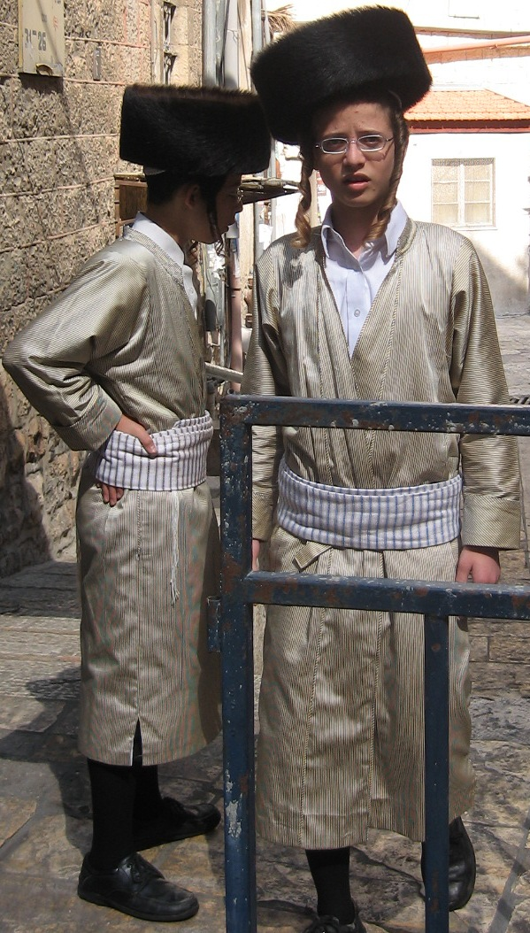 Based on[1]